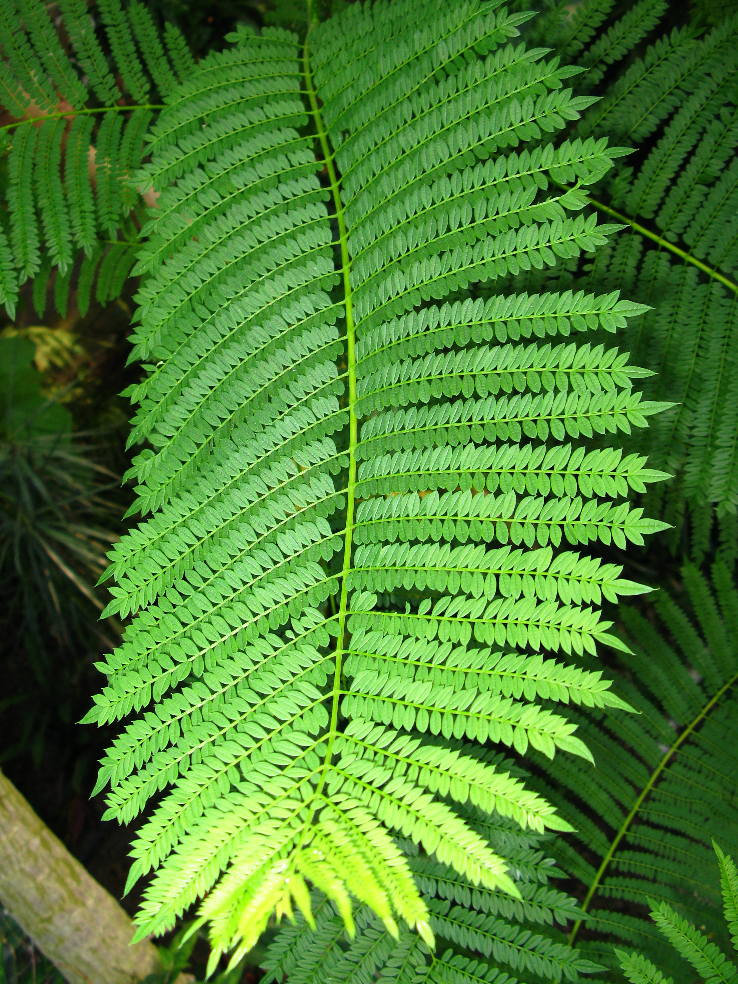 Leafs of Jacaranda mimosifolia (under glass) in PAN Botanical Garden in Warsaw